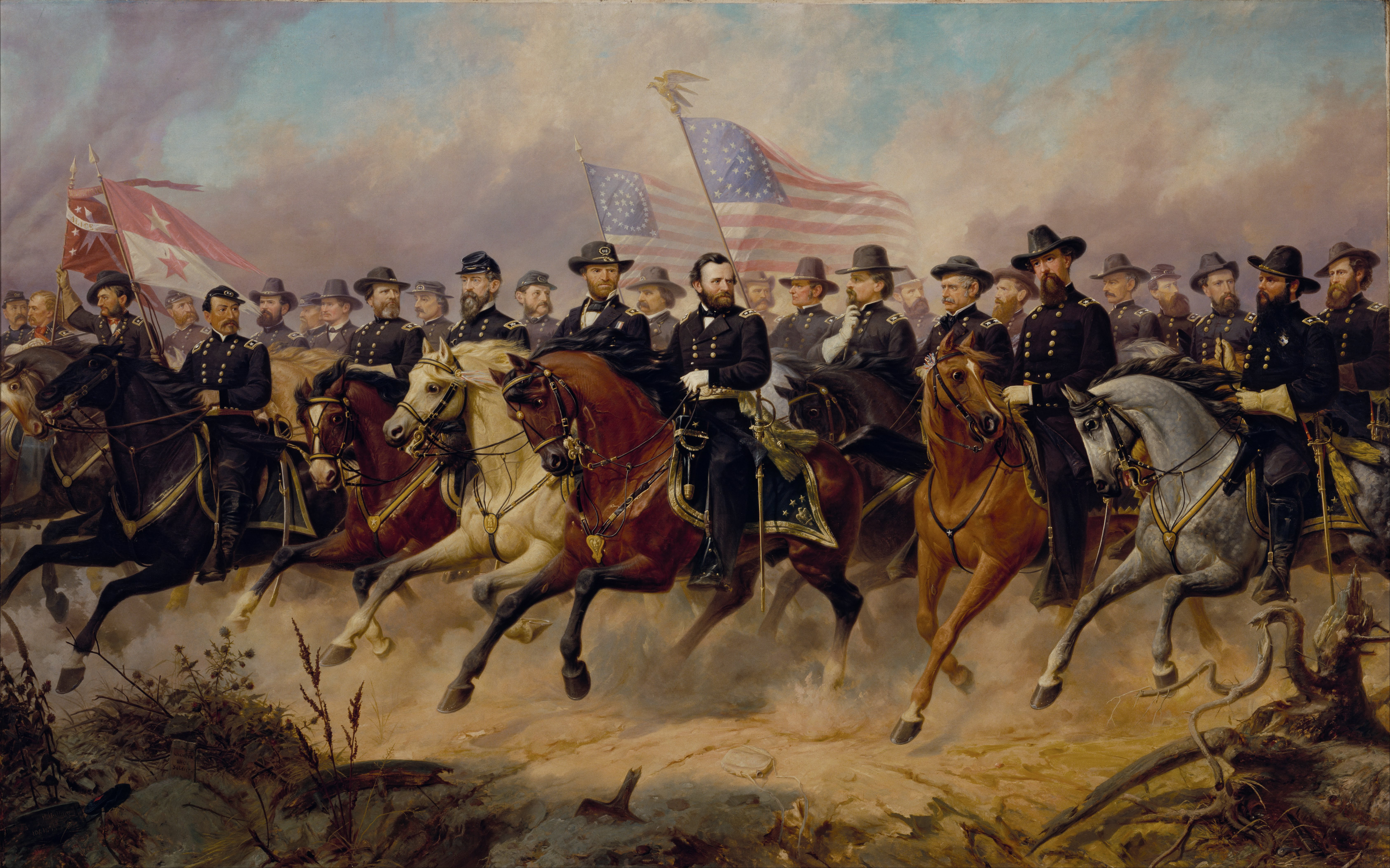 The following generals are depicted in this painting: Thomas Casimer Devin George Armstrong Custer Hugh Judson Kilpatrick William Hemsley Emory Philip Henry Sheridan James Birdseye McPherson George Crook Wesley Merritt George Jenry Thomas Gouverneur Kemble Warren George Gordon Meade John Grubb Parke William Tecumseh Sherman John Alexander Logan Ulysses Simpson Grant Ambrose Everett Burnside Joseph Hooker Winfield Scott Hancock John Aaron Rawlins Edward Otho Cresap Ord Francis Preston Blair, Jr. Alfred Howe Terry Henry Warner Slocum Jefferson Columbus Davis Oliver Otis Howard John McAllister Shofield Joseph Anthony Mower I believe I've assigned them all correctly. I do think that it's very interesting how each persons relative importance is demonstrated - and how (as a former Civil War buff) I don't recognize hardly any of the lesser names... :)